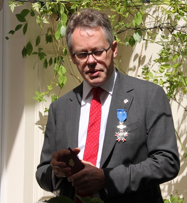 Sir Dermot Turing awarded Polish state decoration for highlighting the role of Poles in breaking the Enigma code